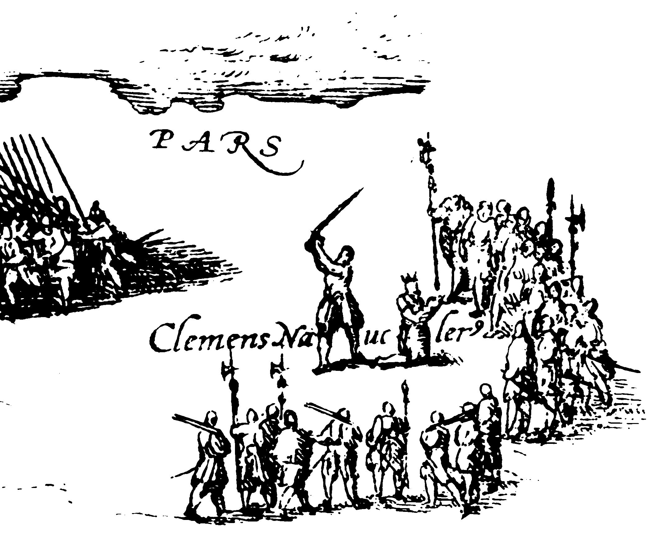 Execution of Skipper Clement in Viborg, Denmark, on 9 September 1536.